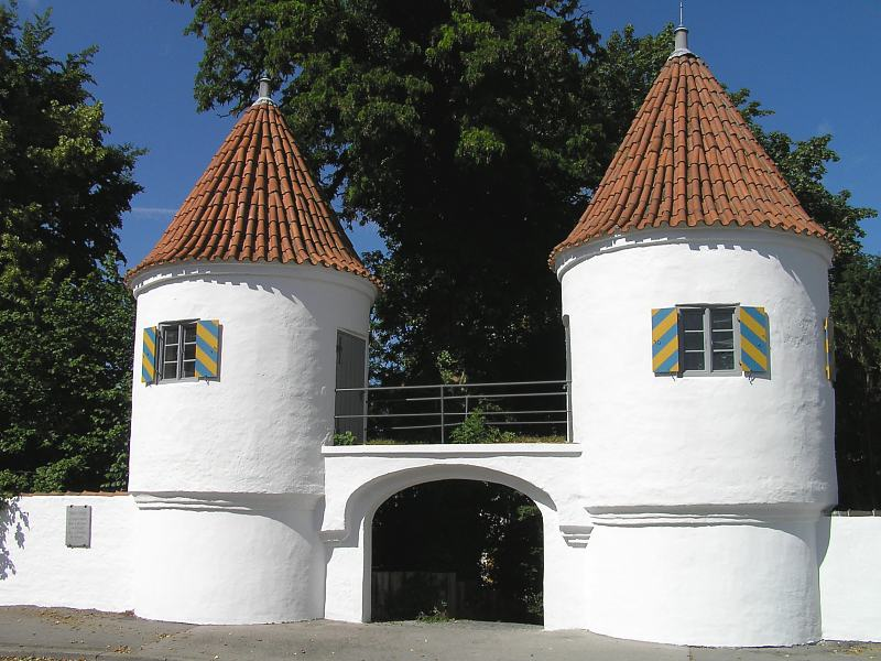 Hexentürmchen ("Witches' turrets") at the city hall, Schwabmünchen, Germany